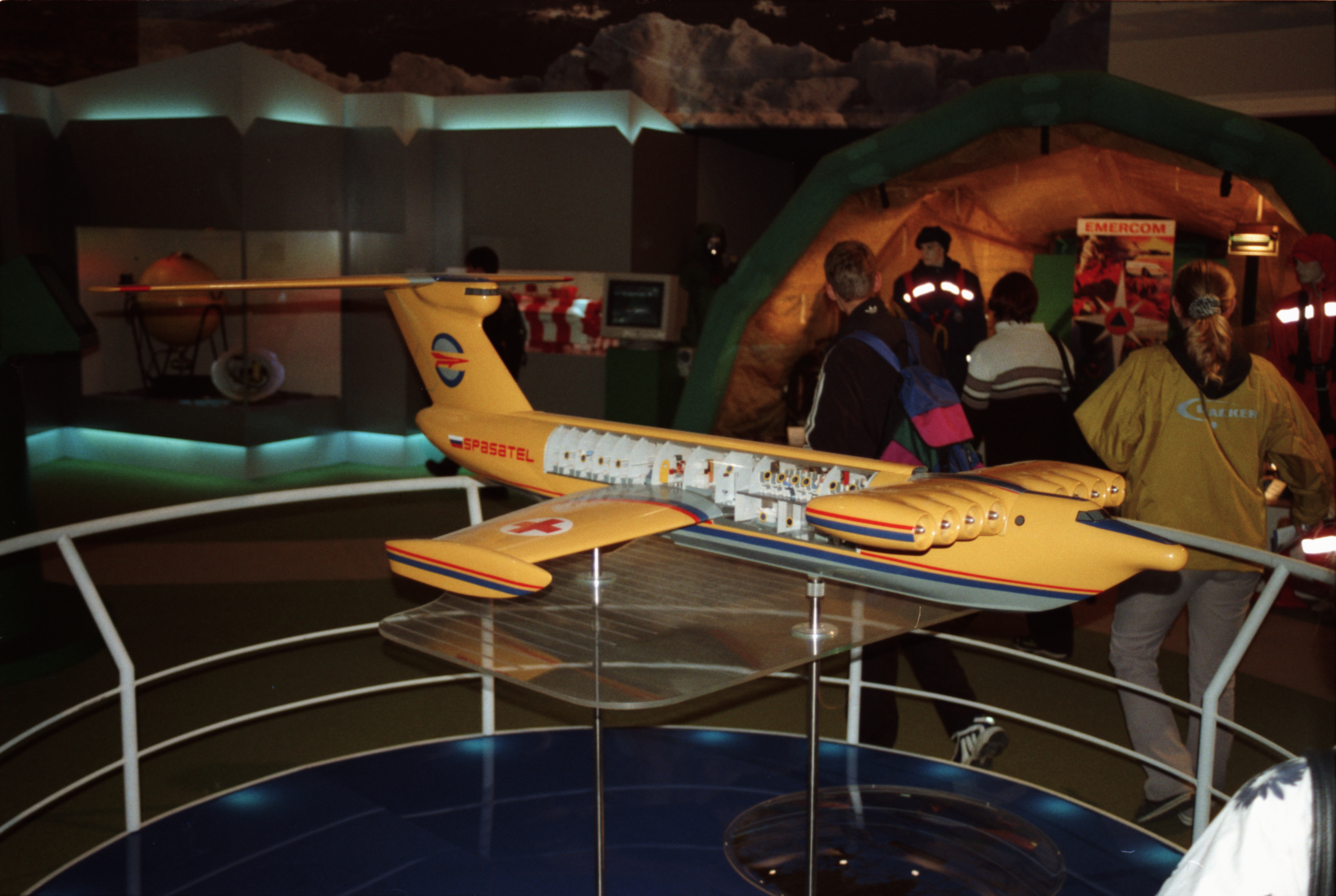 Cutaway model of the Spasatel ("Rescuer"), a mobile field hospital version of the Lun-class ekranoplan, a Soviet/Russian ground effect vehicle. The model is on display at Expo 2000.